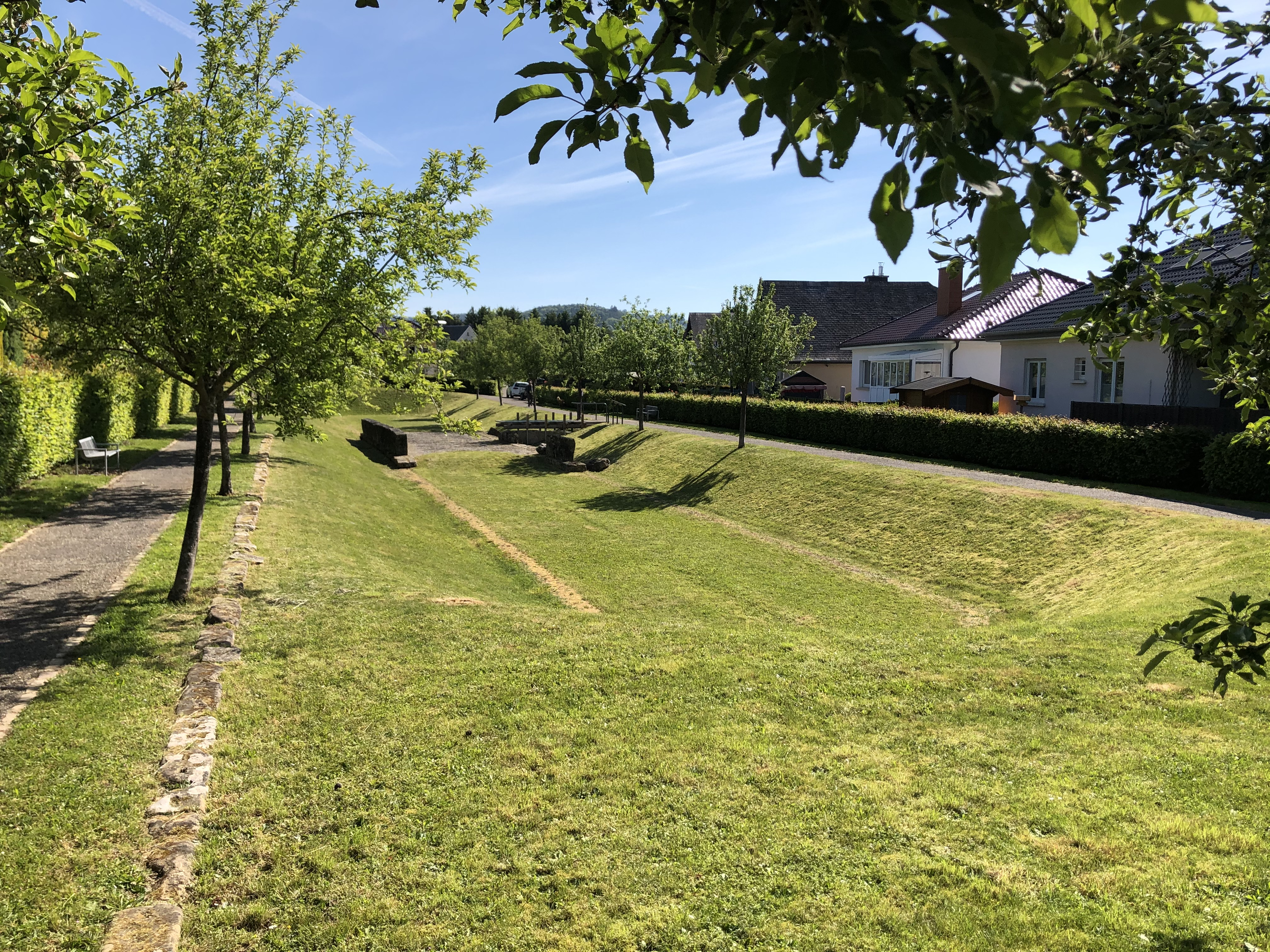 water basin of the romain villa, Mersch, Luxemburg